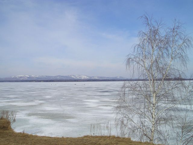 Lake Irtyash